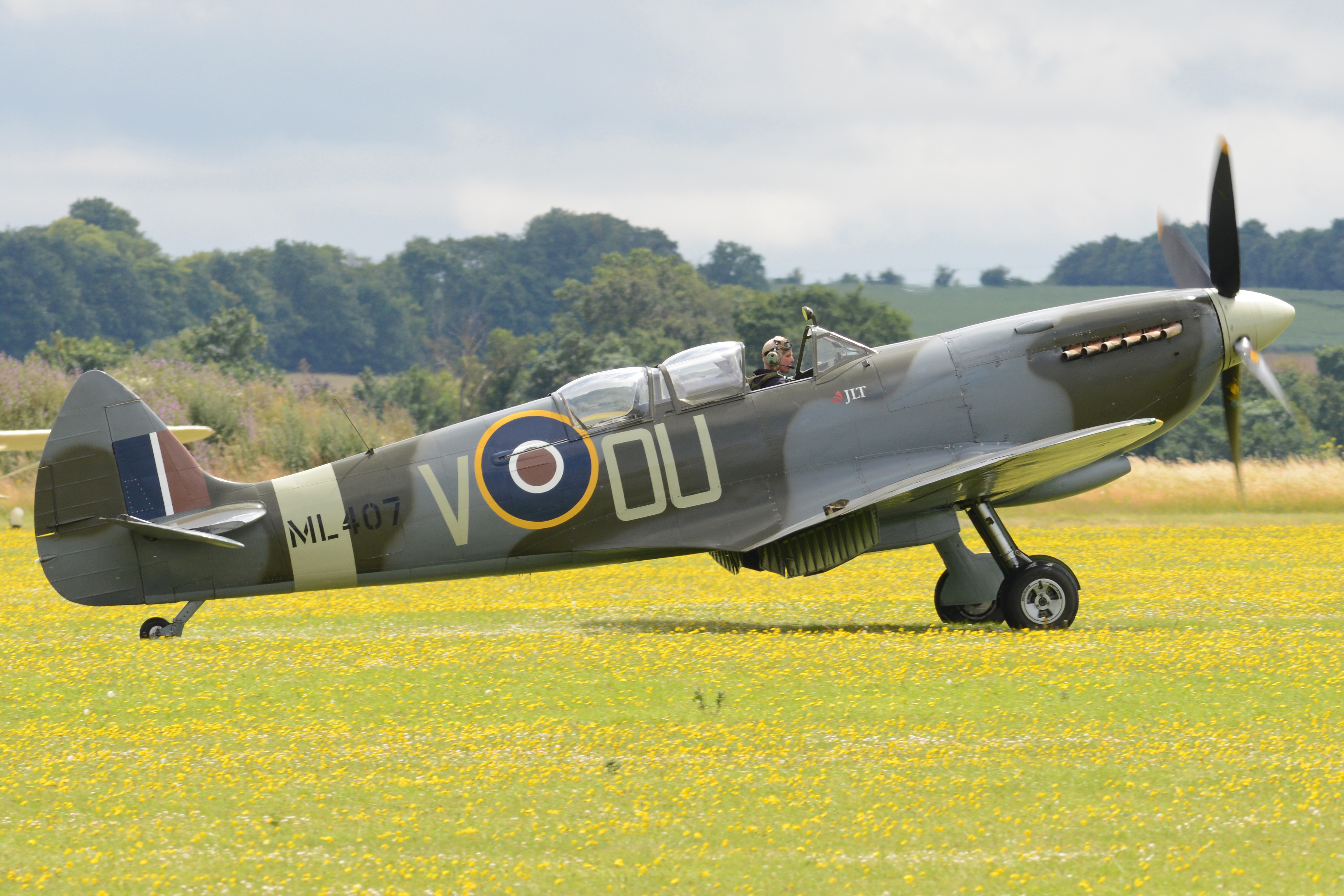 c/n CBAF.8463. RAF serial ‘ML407’. Irish Air Corps serial ‘162’ Seen rolling out after landing at the 2016 Flying Legends Airshow. Duxford Airfield, Cambridgeshire, UK. 10th July 2016.